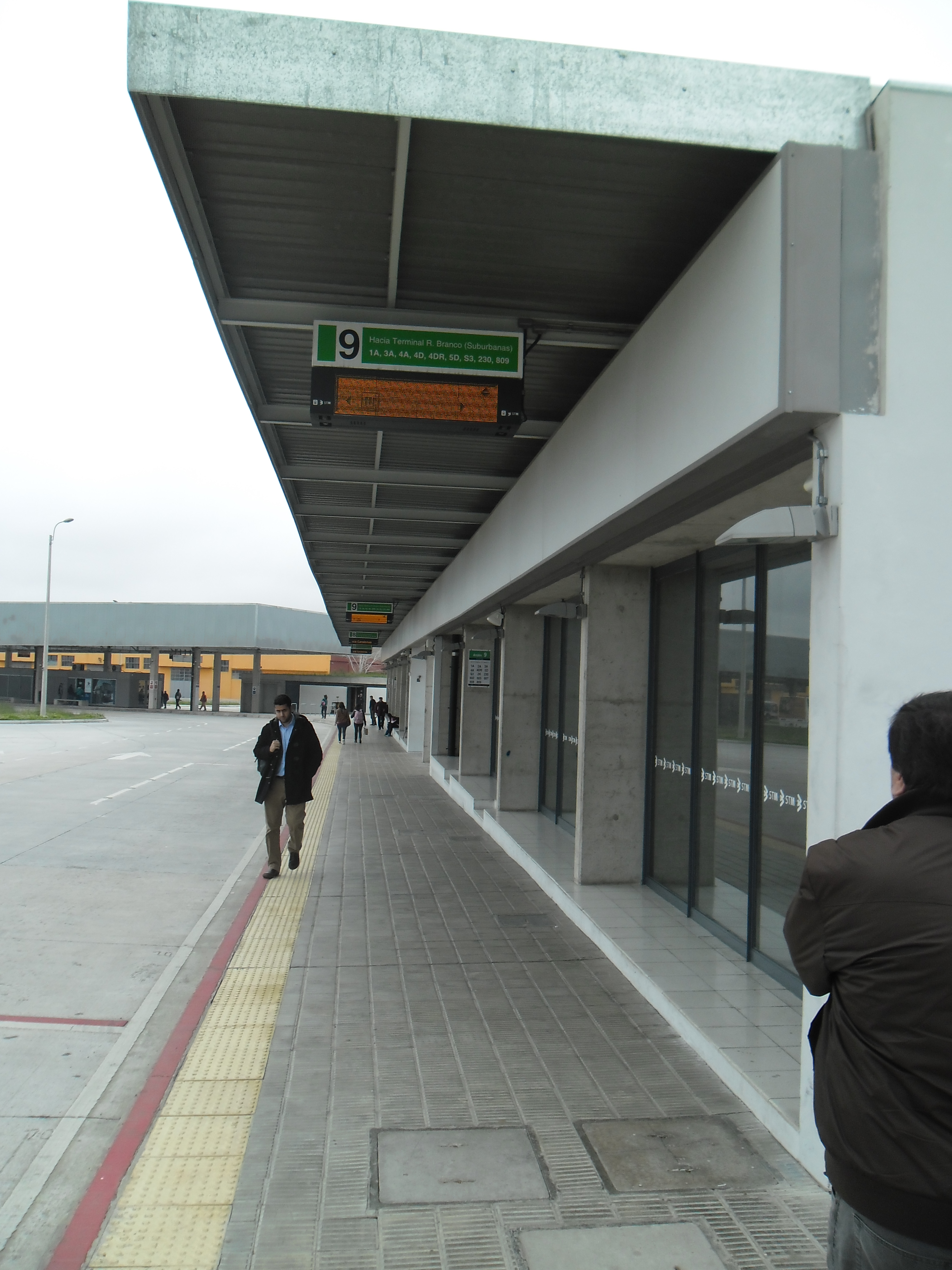 Cartel Led Andén 9 de la Terminal Colón